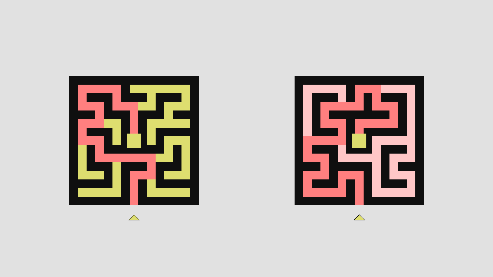 Examples of a so-called perfect maze (left) and a braid maze